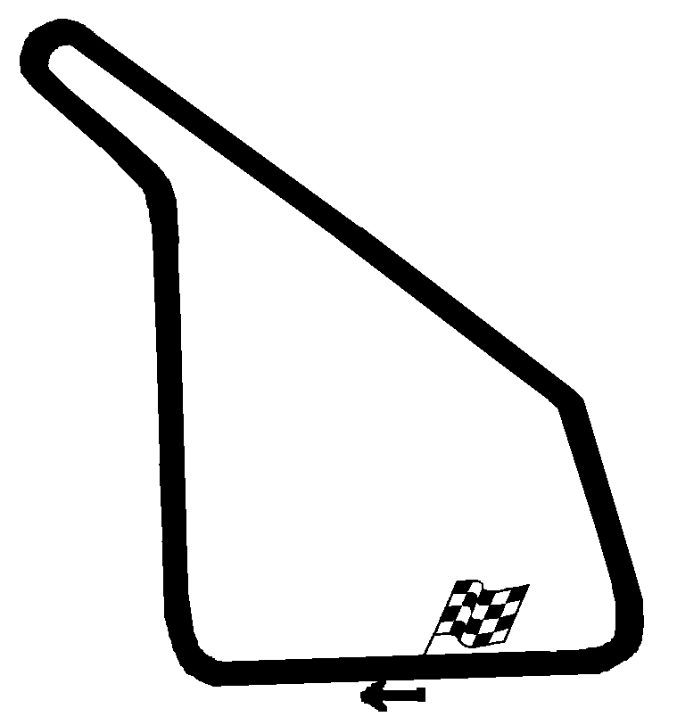 First layout of Circuit Jean Behra (1961, about 2 km long), 1989 renamed Circuit de Nevers Magny-Cours